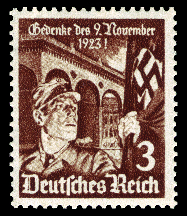 Beer Hall Putsch Ausgabepreis: 3 Pfennig First Day of Issue / Erstausgabetag: 5. November 1935 Michel-Katalog-Nr: 598 (Deutsches Reich)